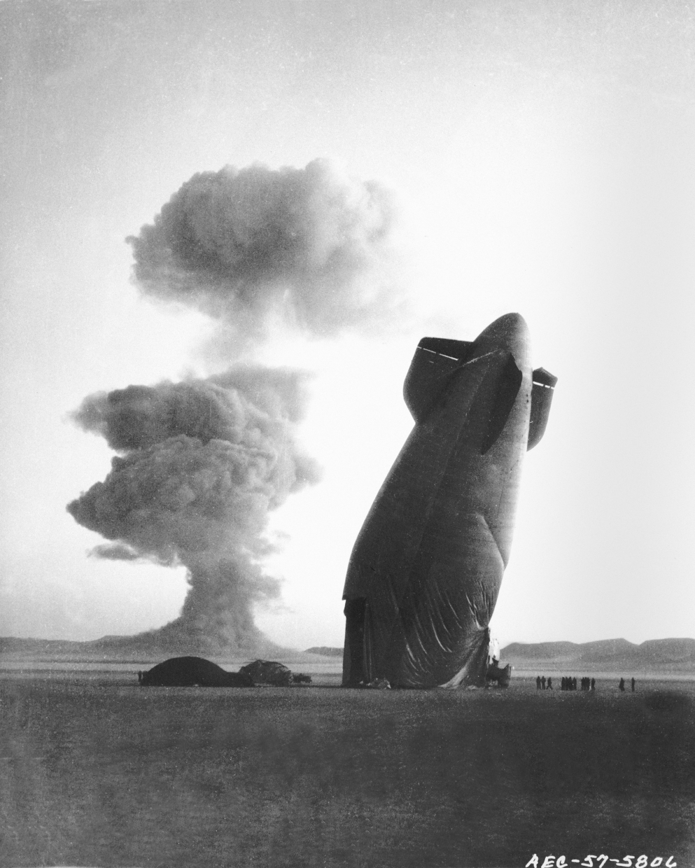 PLUMBBOB/STOKES/dirigible – Nevada test Site, August 7, 1957. The tail, or “After” section of a U.S. Navy Goodyear ZSG-3 Blimp is shown with the Stokes cloud in background. The dirigible was in temporary free flight in excess of five miles from ground zero when collapsed by the shock wave from the blast. The airship was unmanned and was used in military effects experiments on blast and heat. On ground to the left are remains of the forward section.